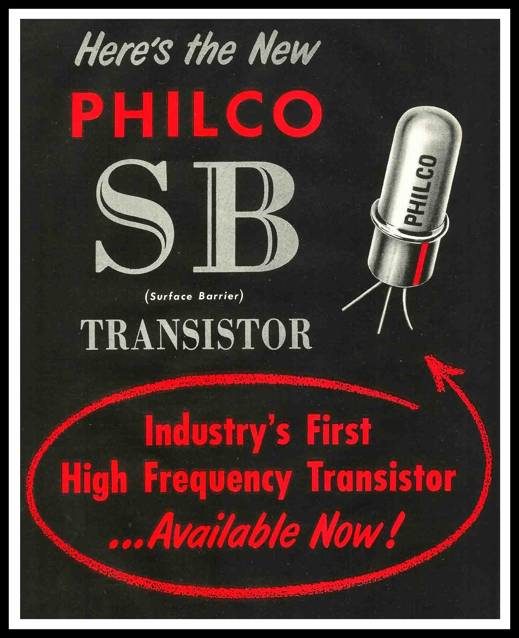 This is a scanned page of my 1955 Philco material advertisement. This scanned image is for the educational purposes only, and for the history of Philco. Philco is no longer in business and was sold out to Ford in 1961 and Ford sold its ownership of Philco in 1974. The copyright on this Philco advertisement was not renewed and it is in the public domain.